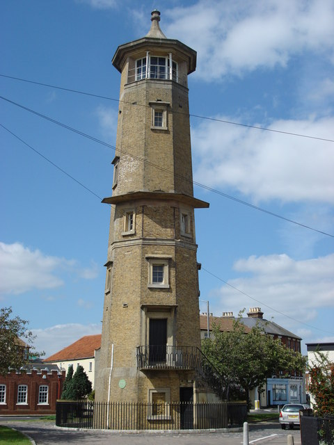 High Lighthouse, Harwich The tall one of a pair of unused Lighthouses in Harwich.